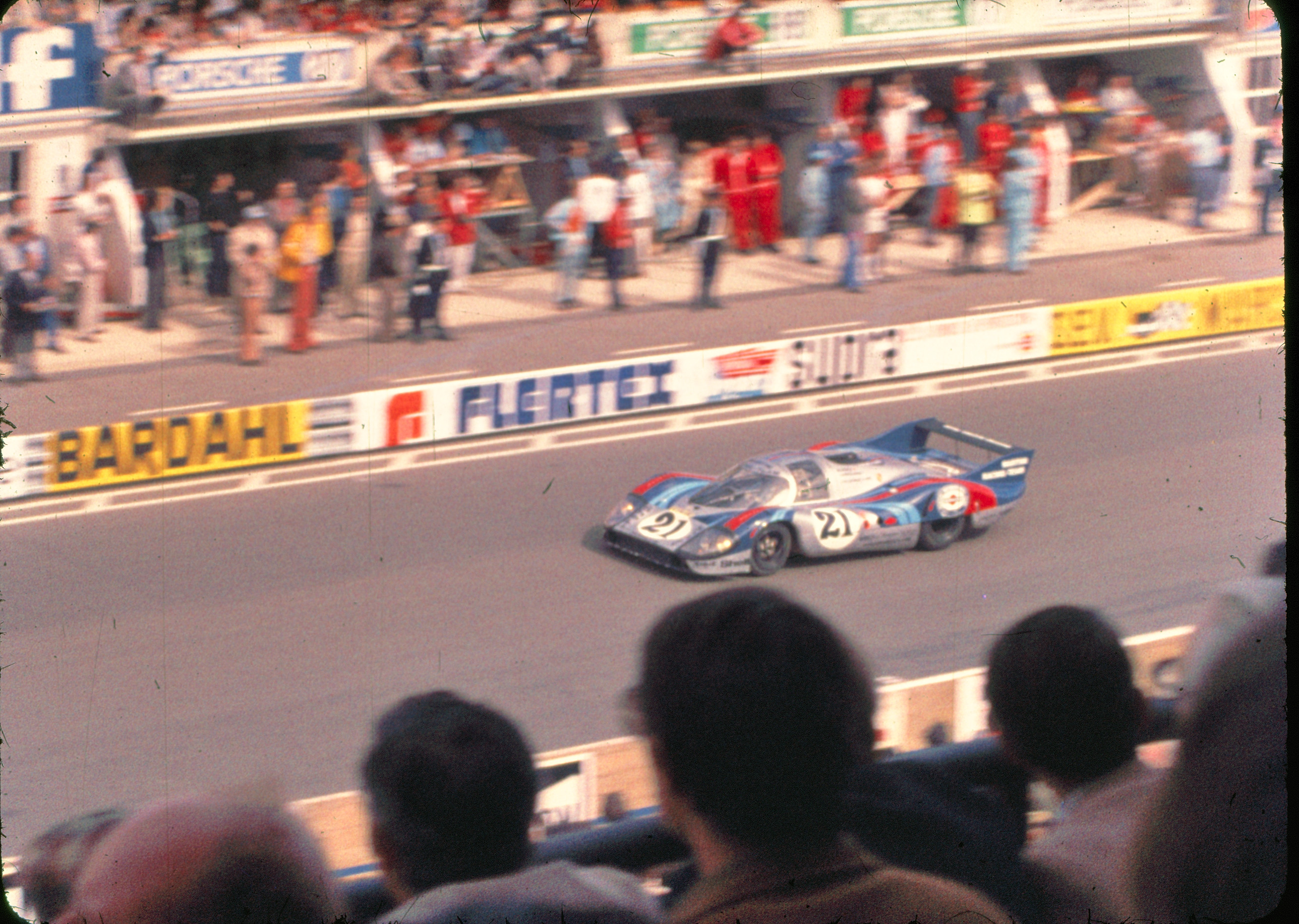 Porsche 917 LH N°21 Martini Internatinal Racing Team Technique : Catégorie : Sport Moteur : F12 Porsche 4907 cm3 Pneus : Firestone Pilotes : Gerard Larrousse Vic Elford